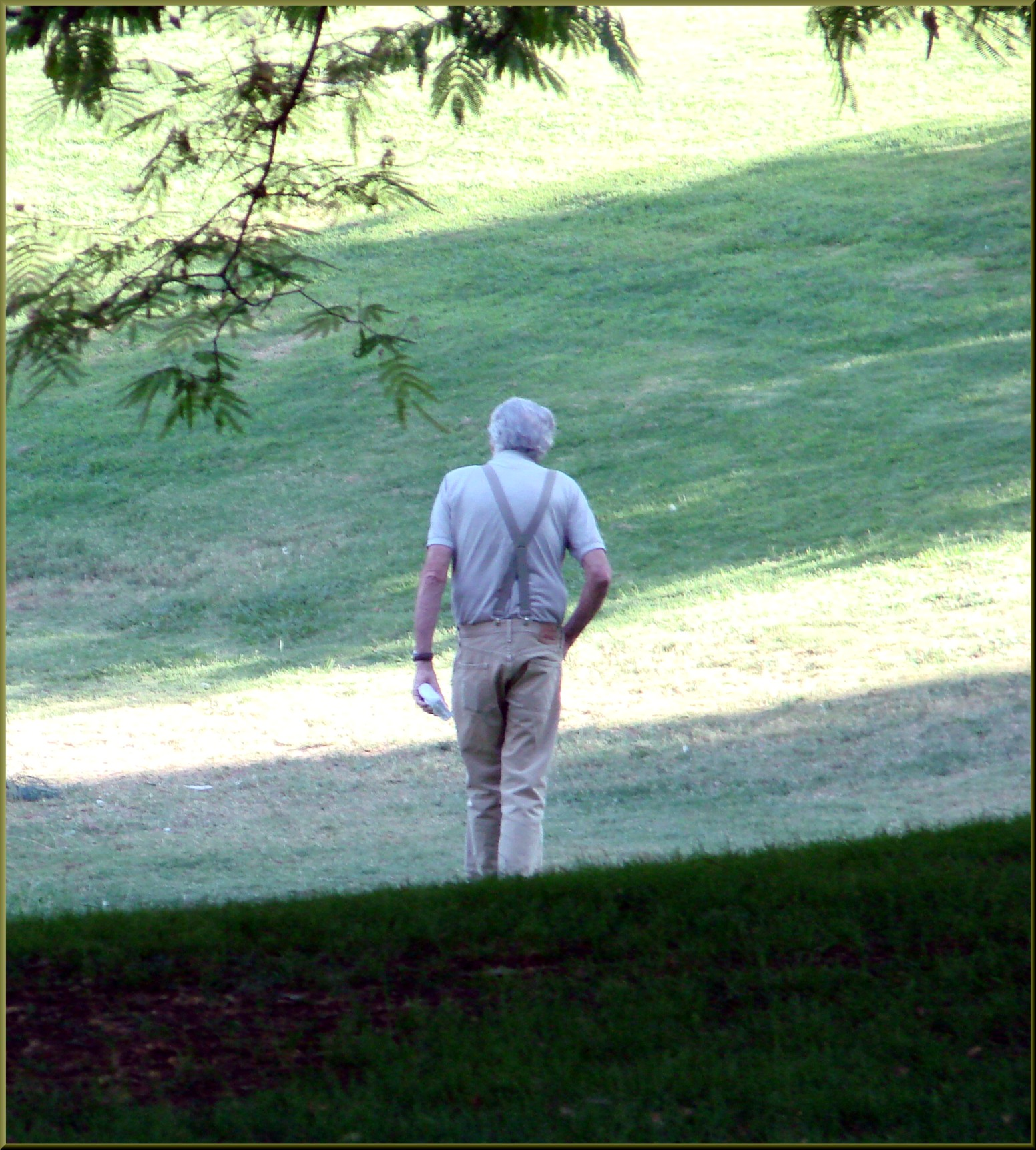 (1 in a multiple picture set) I felt a bit guilty taking his picture, but something about him kept my camera on him. I used the telephoto as he walked along the edge of the upper pond. I realized that the term "old man" applied to me as much as it did to him. Maybe that' s why I kept shooting. Also, there was something sad in the way he moved. (Next photo)